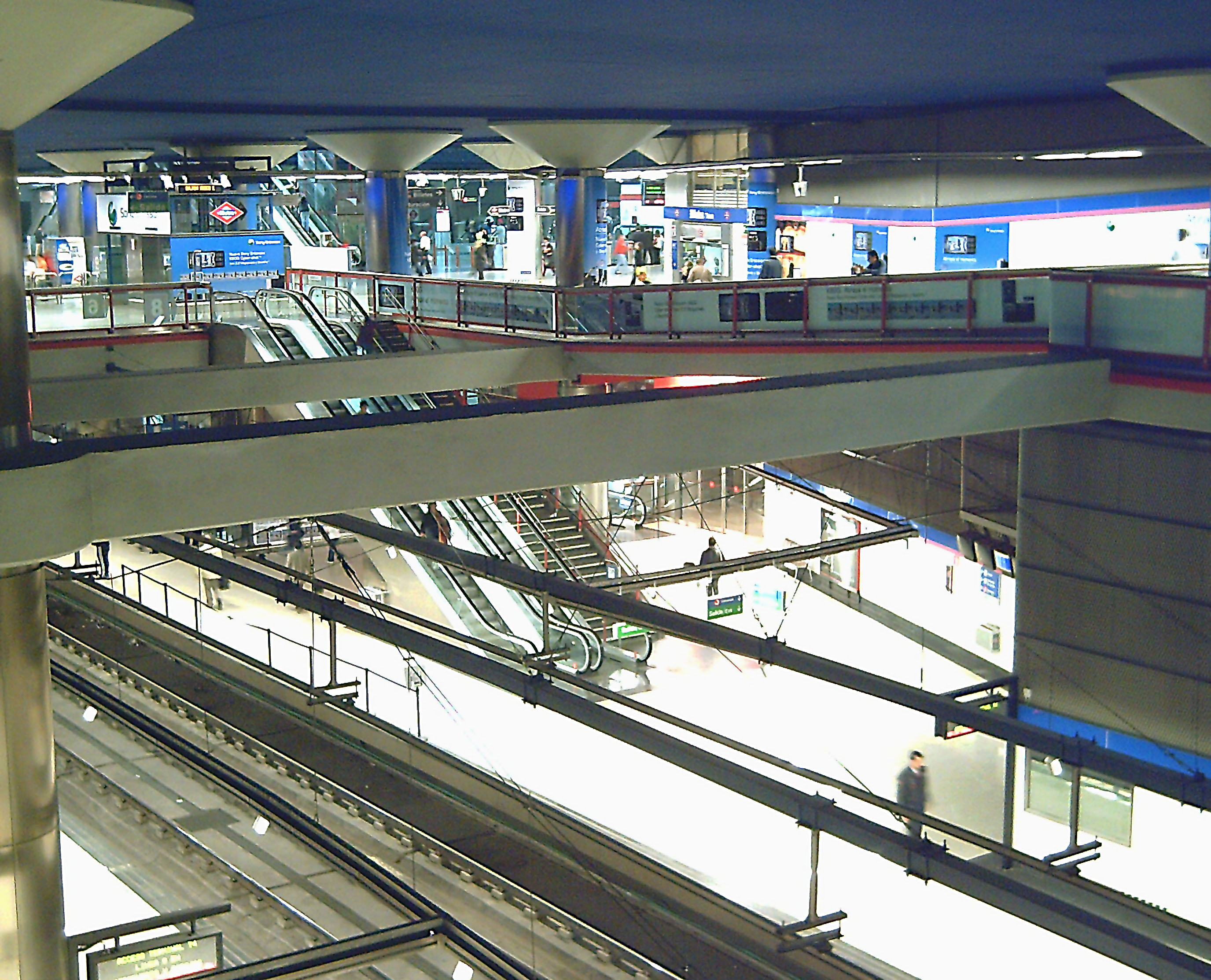 Nuevos Ministerios Metro and Cercanías station in Madrid (Spain).